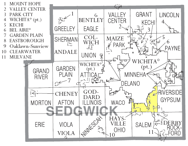 Map of Sedgwick County, Kansas highlighting Riverside Township